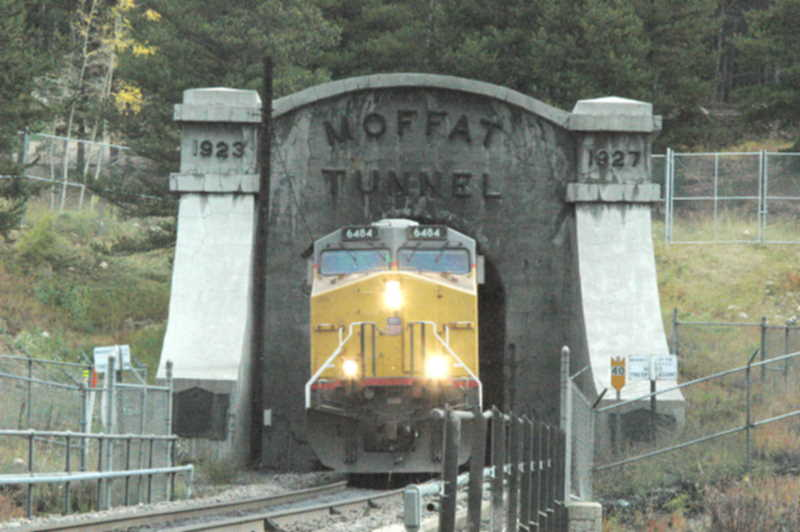 Picture of train exiting the six-mile-long Moffat Tunnel at Winter Park, Colorado. This is an original picture by Christopher Ness shot October 5, 2004 and released under the GFDL..